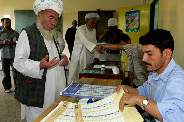 Afghan men waits to receive ballot from election worker during the successful parliamentary and provincial elections held on September 18, 2005. The elections are a major step forward in Afghanistan's development as a democratic state governed by the rule of law.